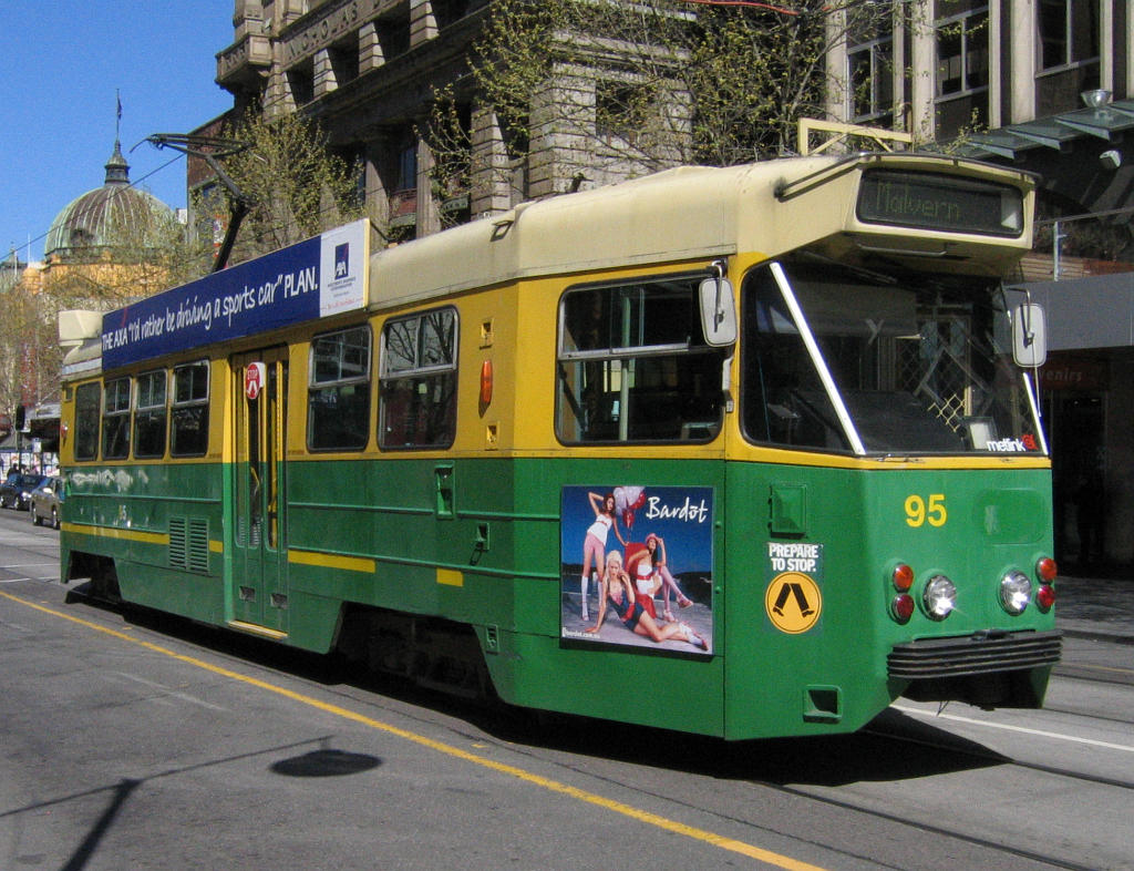 Z1 class tram 96 on Swanston Street near Collins Street - Melbourne, Australia